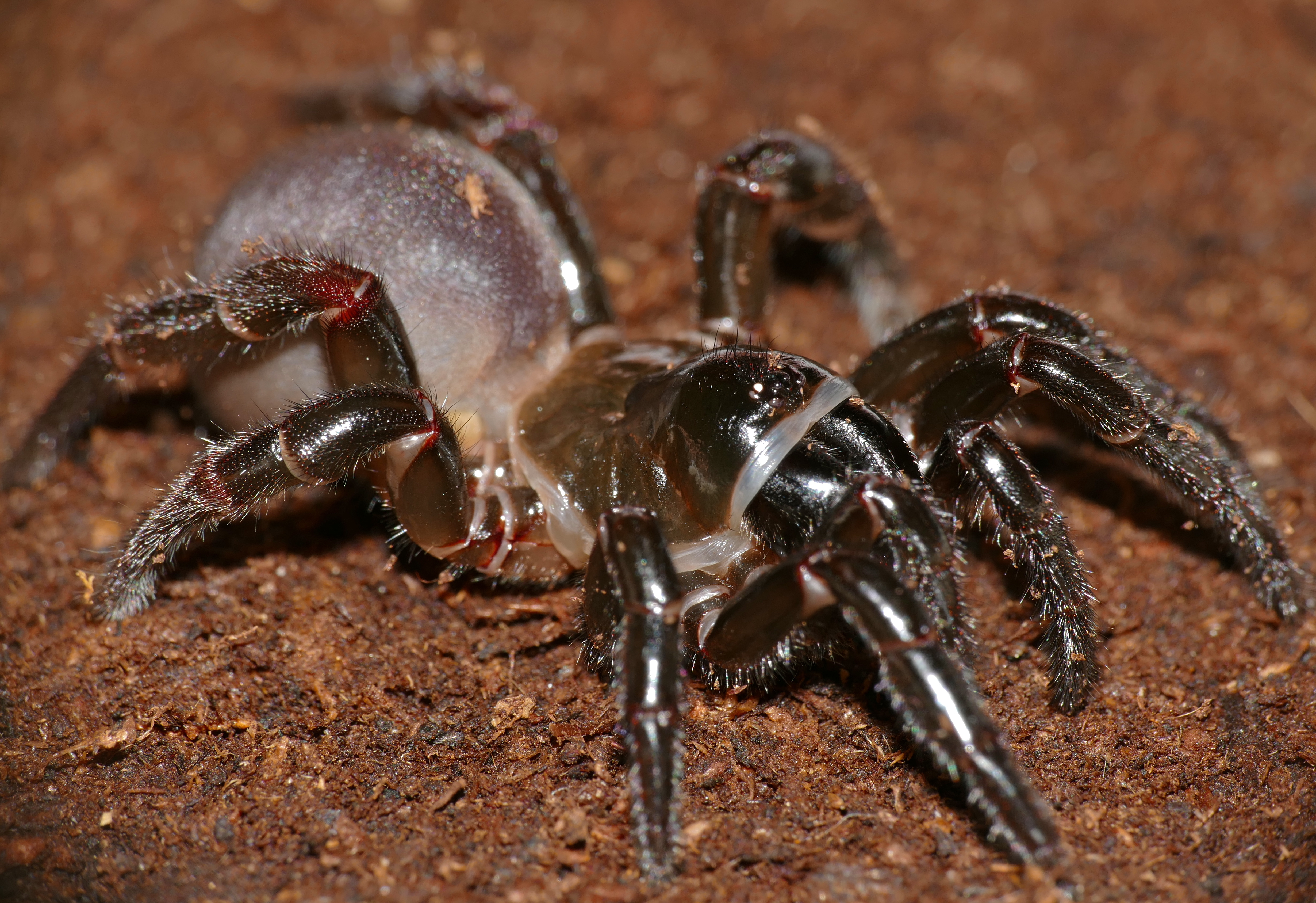 Corse, FRANCE (Captive specimen)